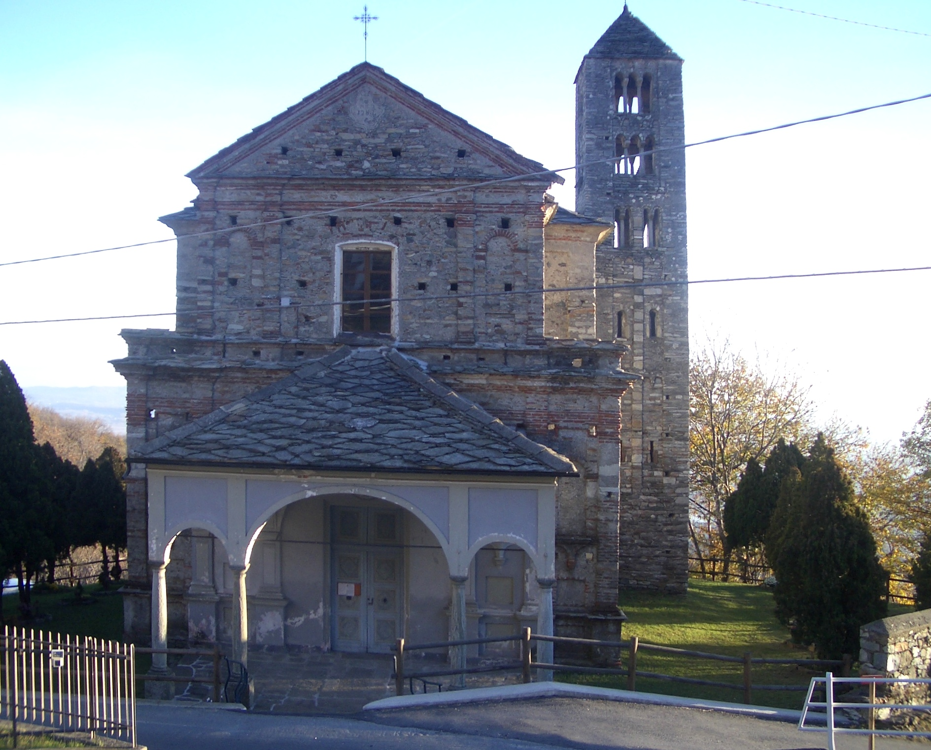 “Church of Santa Maria ”, Andrate, Turin, Italy